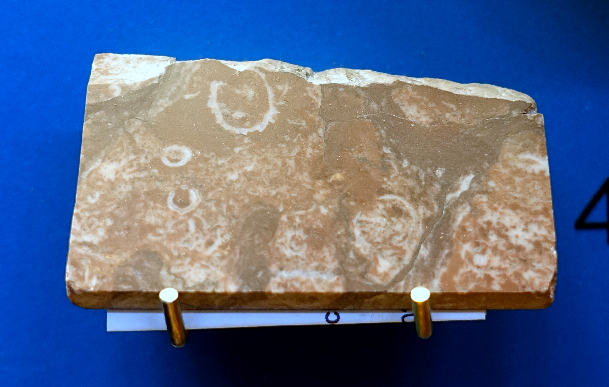 Exhibit in the Redpath Museum, McGill University - Montreal, Quebec, Canada.